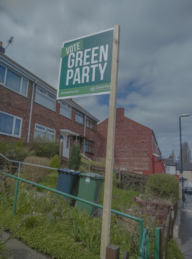 Green stakeboard in Birkenhead and Tranmere ward put up in the run up to the 2018 local elections.